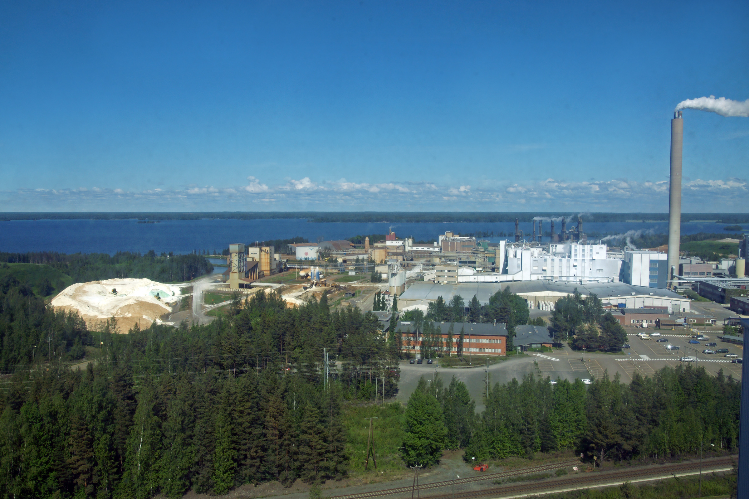 Huntsman Corp. titanium dioxide plant in Pori, Finland. Formerly owned by Sachtleben Pigments. Seen from Kaanaa water tower